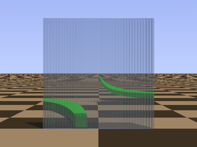 View through a Dove-prism array (an array of elongated Dove prisms) from far enough so that the individual Dove prisms cannot be resolved clearly. A green cuboid stretching from the sheet to almost infinity appears bent into a hyperbola. In different images a close-up of the sheet can be seen, along with one end of the cuboid.